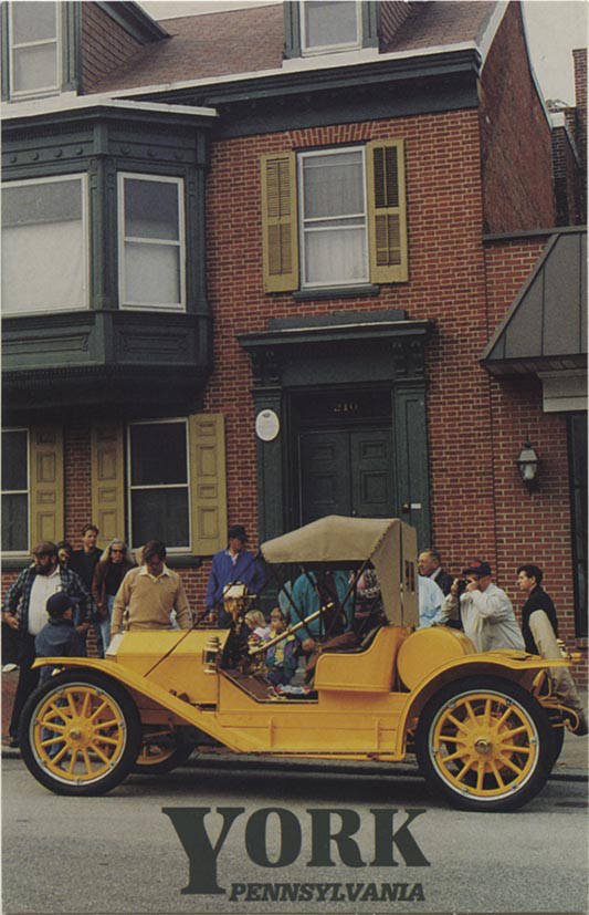 1910 Model O Pullman Racebout by the Pullman motor car co, York Postcard Club's 2005 Postcard Show